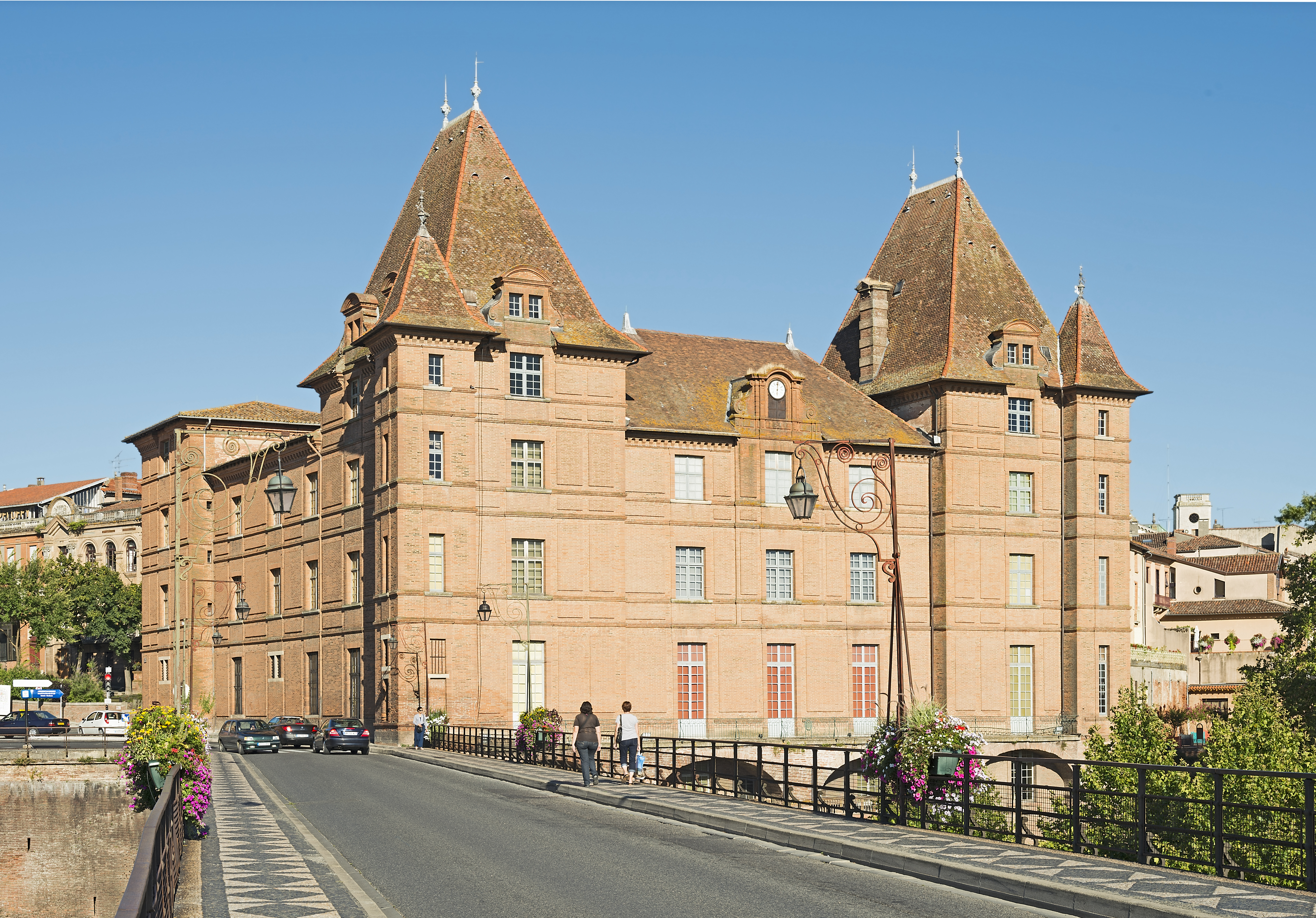 Musée Ingres, Montauban, Tarn et Garonne, France. Former Bishop's Palace, Old Town Hall.